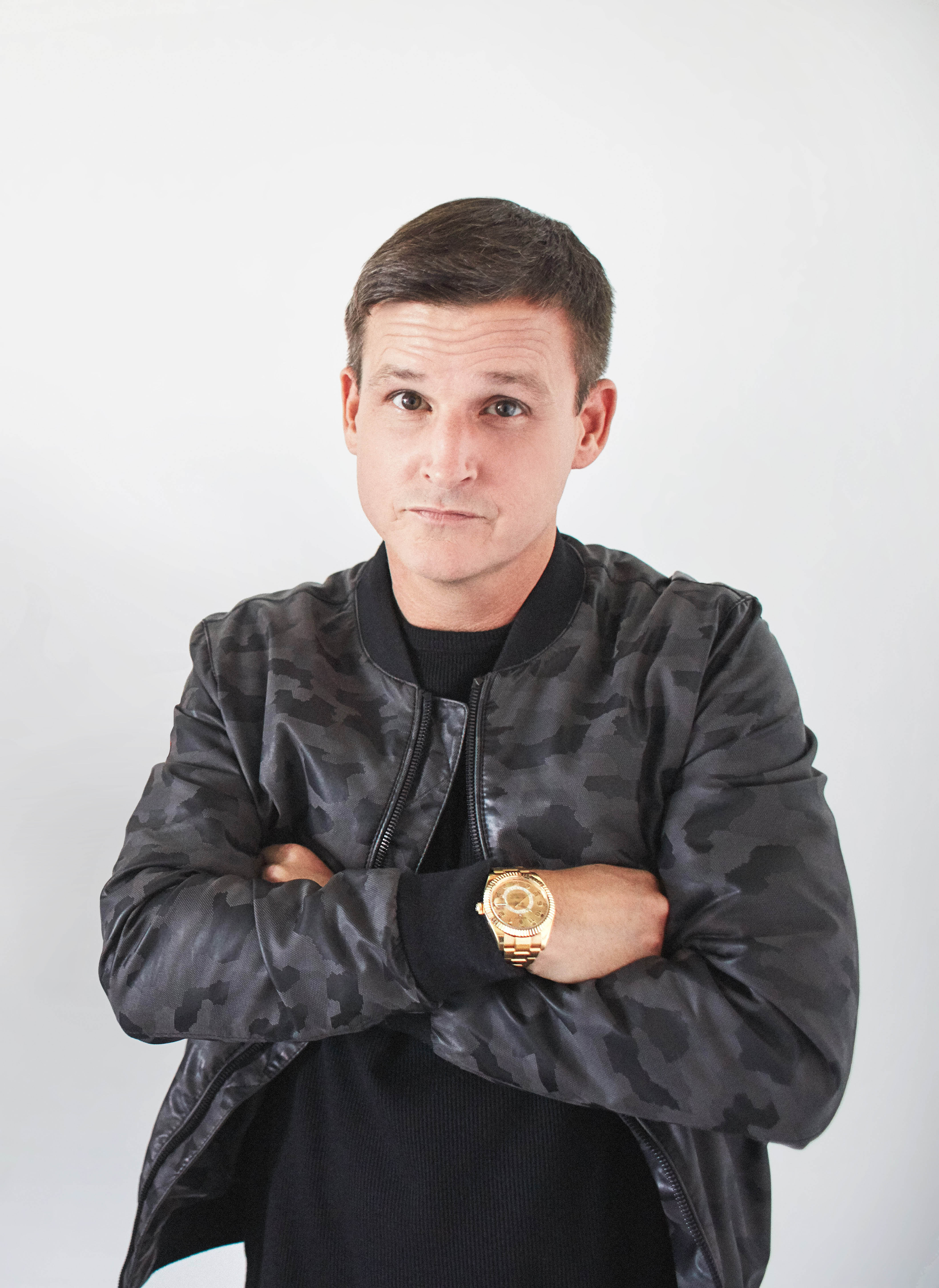 Photo of Rob Dyrdek